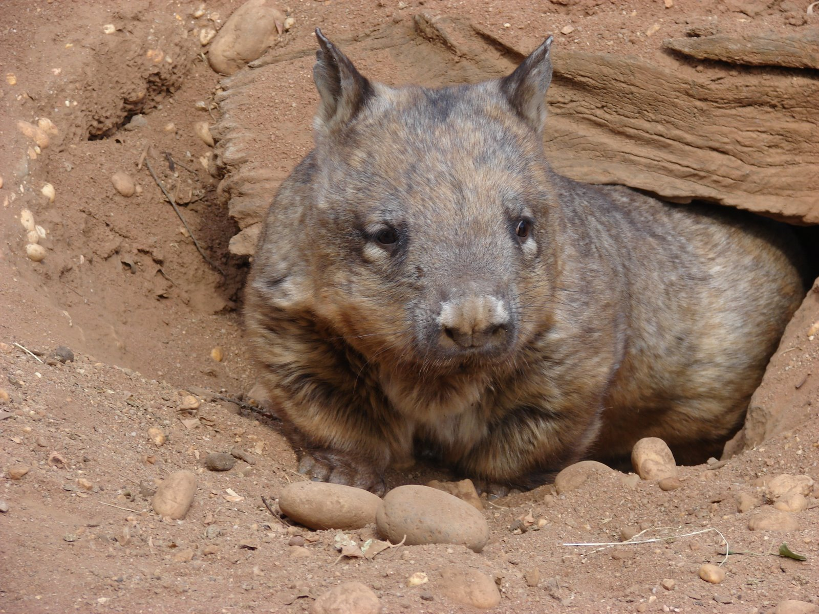 Southern Hairy Nose wombat